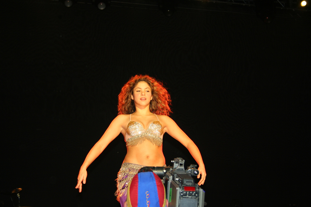 Image of Shakira from Flickr ID:311081264